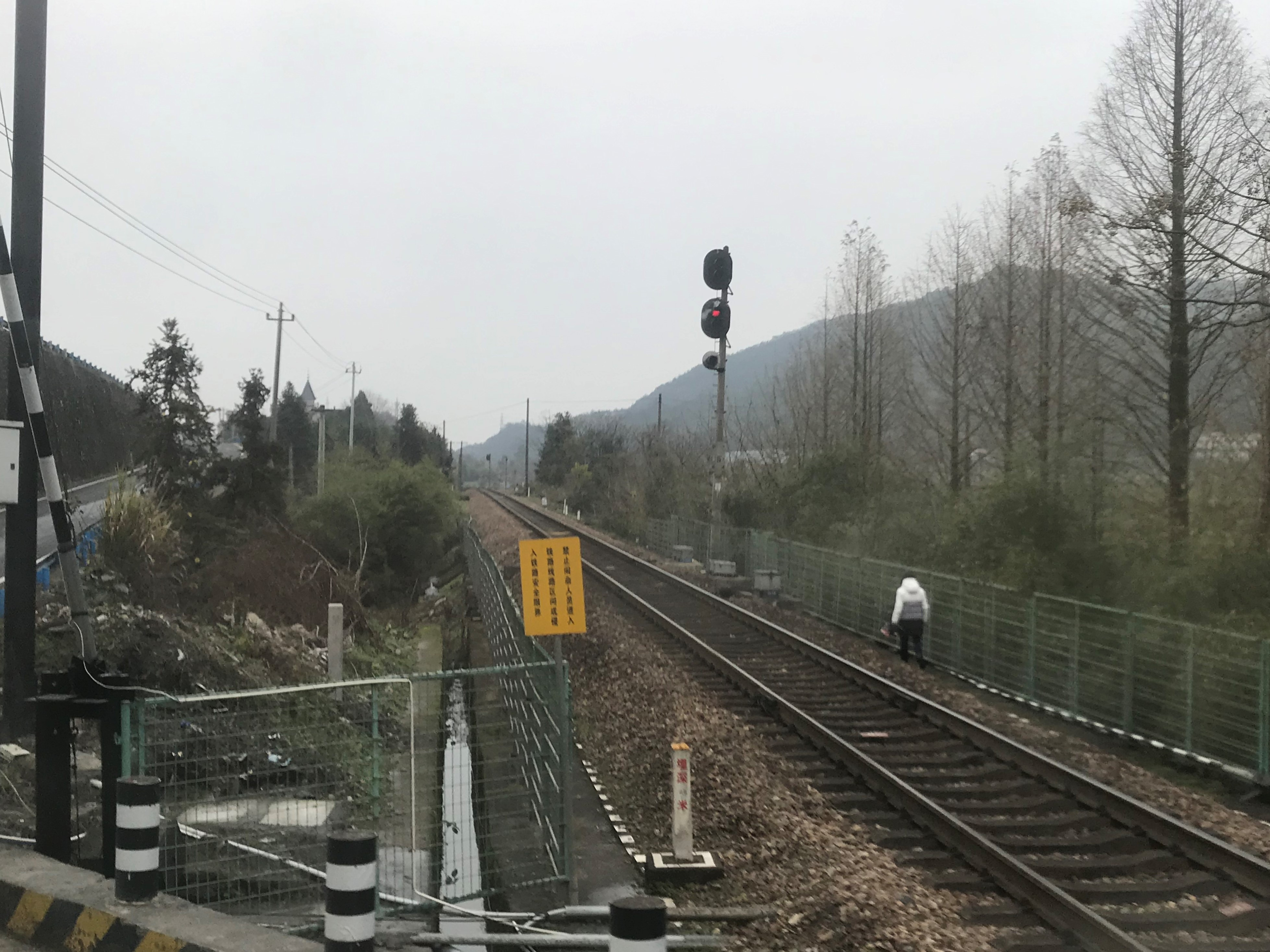 201812 Jinhua-Qiandaohu Railway close to Paitang Station